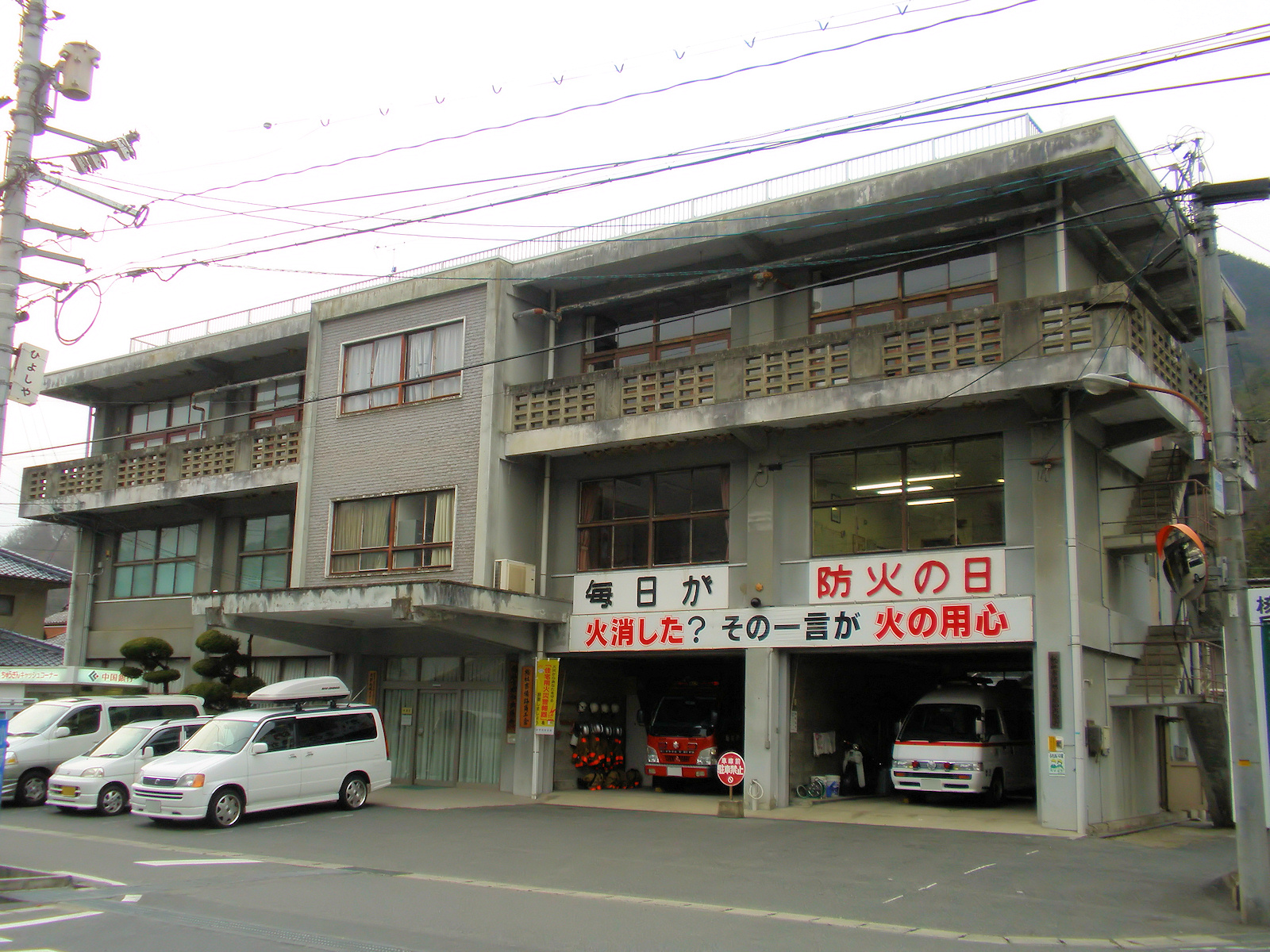 Sōja city office Shōwa branch, and Sōja city fire station Shōwa branch (Former Shōwa town office)